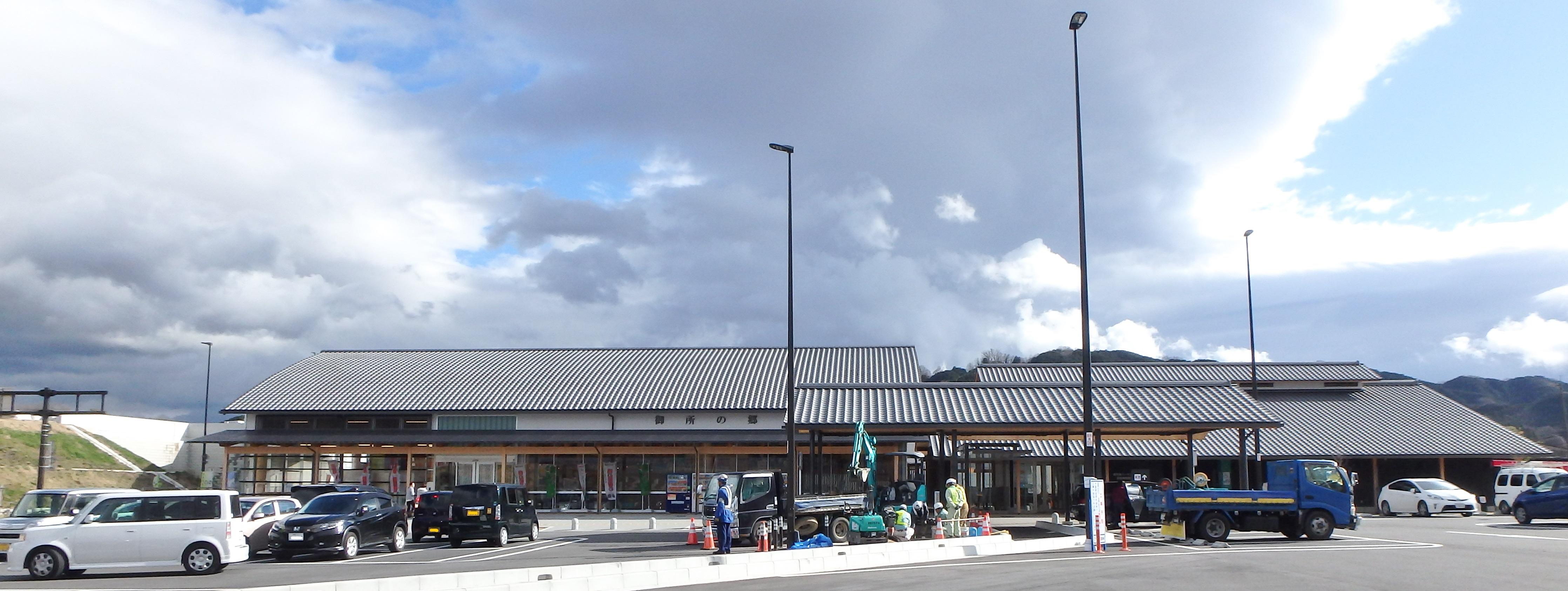 Gose-minami Parking Area,Nara prefecture,Japan